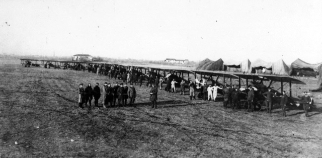 Istrana, Members of No. 45 Squadron, Royal Flying Corps, standing in front of a Sopwith Camel aircraft on the airfield